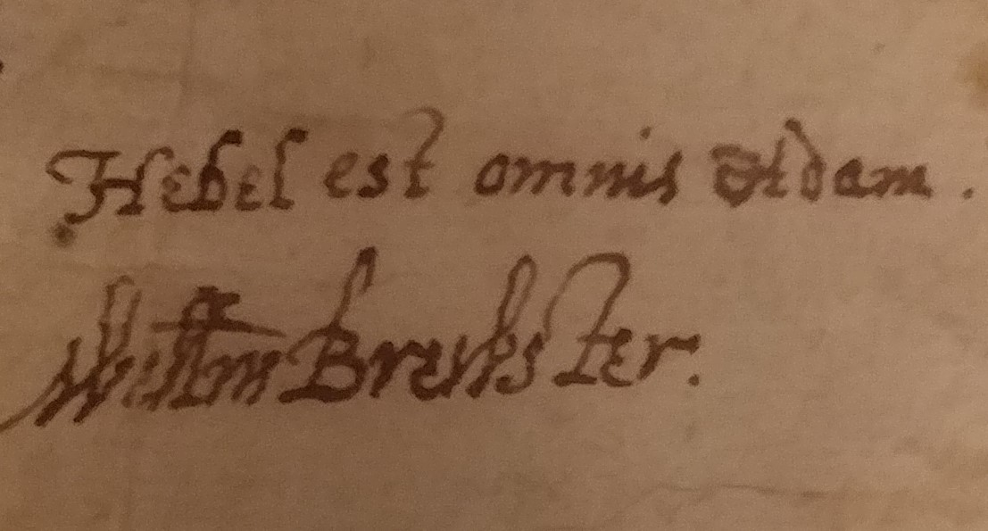 W. Brewster's signature under his motto: - Hebel est omnia Adam (Psalm 39, V5)